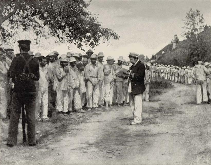 Inscription: "Spanish Prisoners from Admiral Cervera's Fleet at Seavey's Island, Portsmouth, New Hampshire; Captain Emilio Diaz Moreau, of the Cristobal Colon, checking off the names of the men of the Vizcaya and Colon."